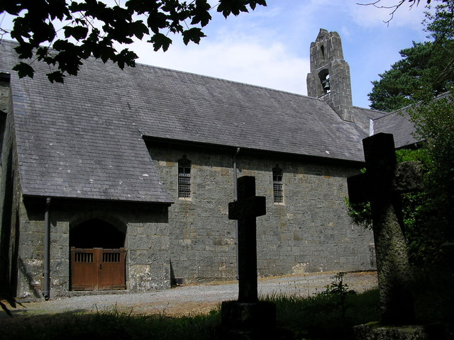 St Mark's Church. Brithdir. Anglican. One of the few Art Nouveau churches in Wales. Built in 1895. No longer used for regular worship but adopted by the Friends of Friendless Churches